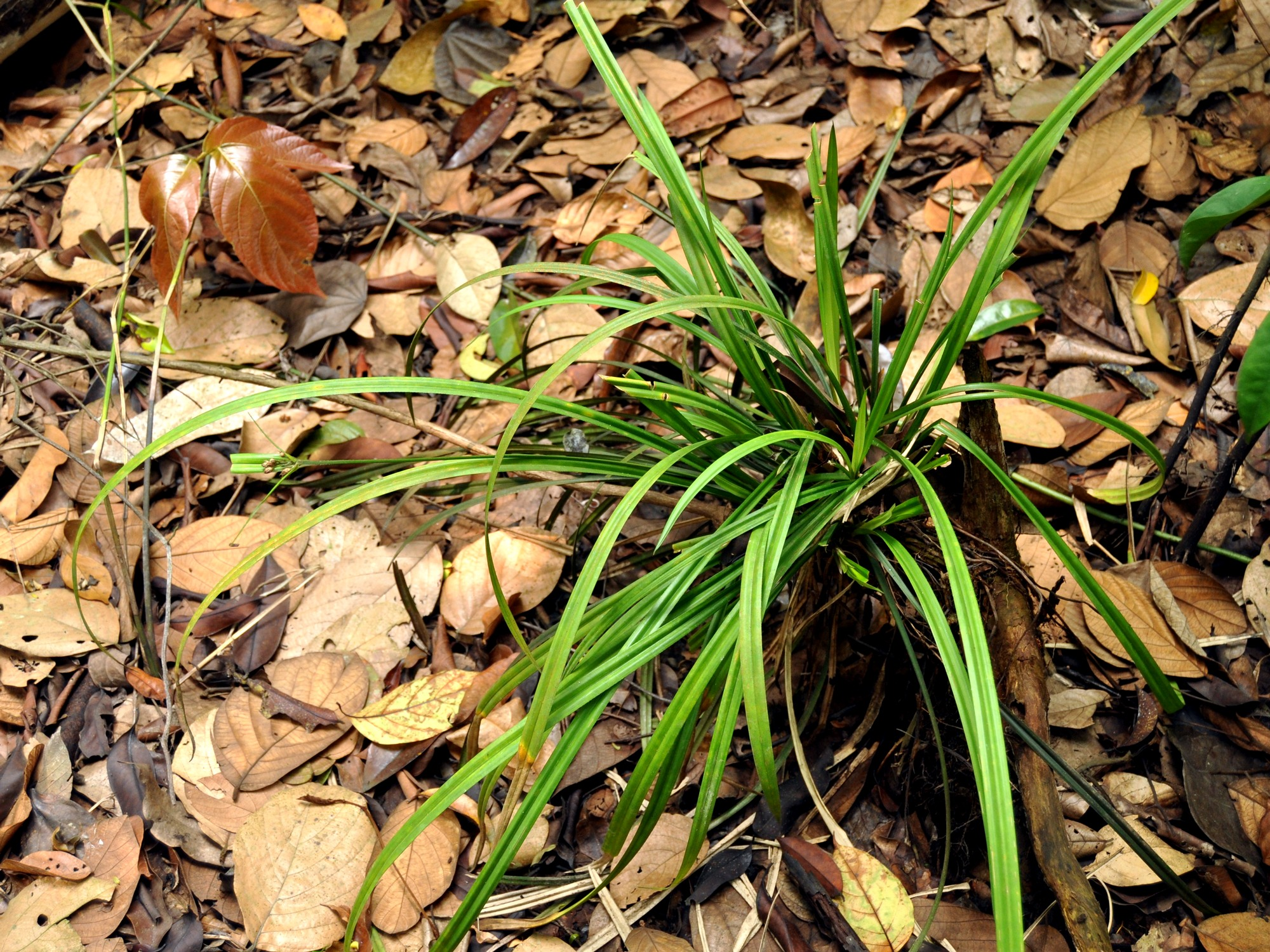 Hypolytrum nemorum, habits. From Rokan Hilir, Riau, Indonesia.